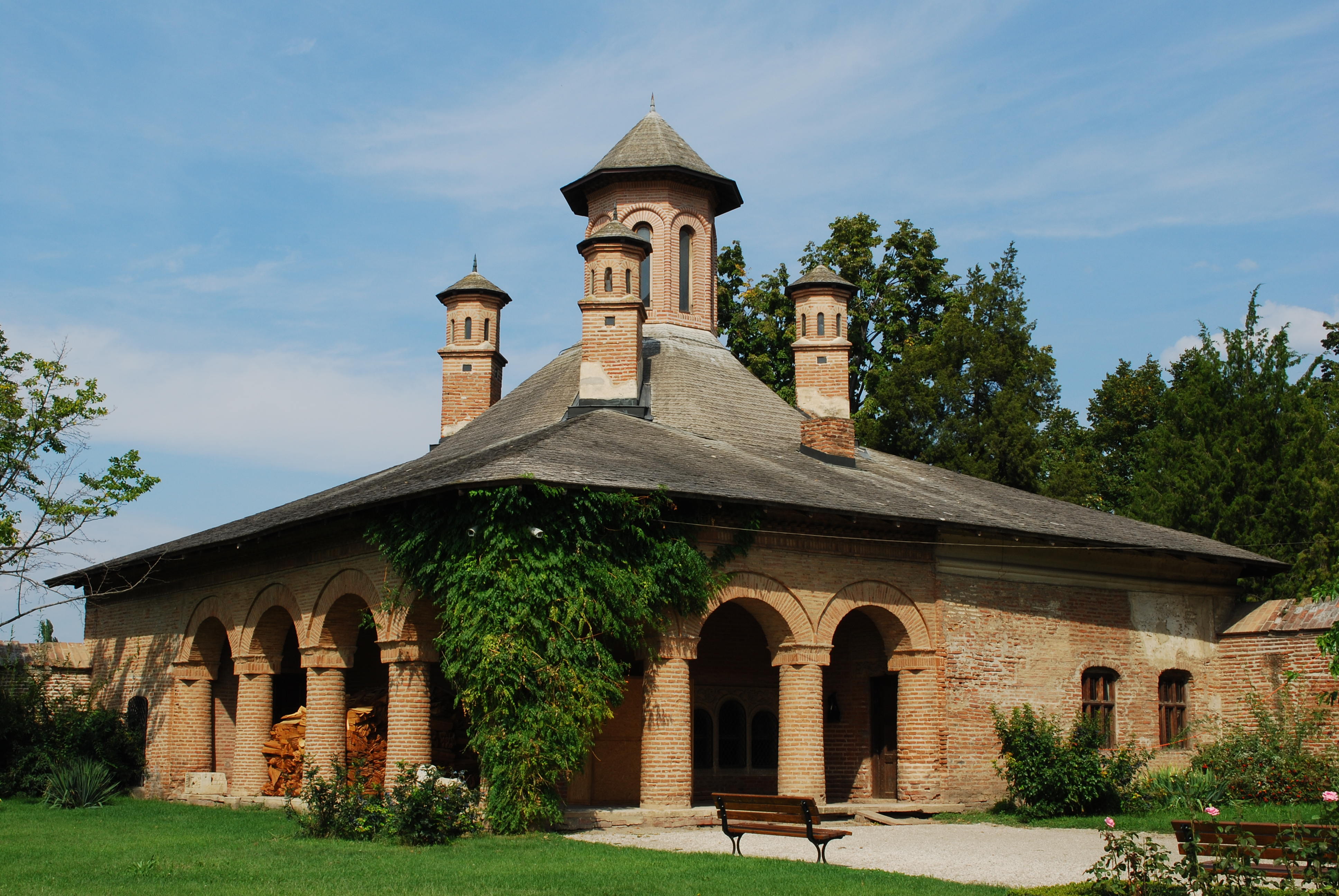 Mogoşoaia Palace in Mogoşoaia, Ilfov County, Romania - Brancovan Kitchen